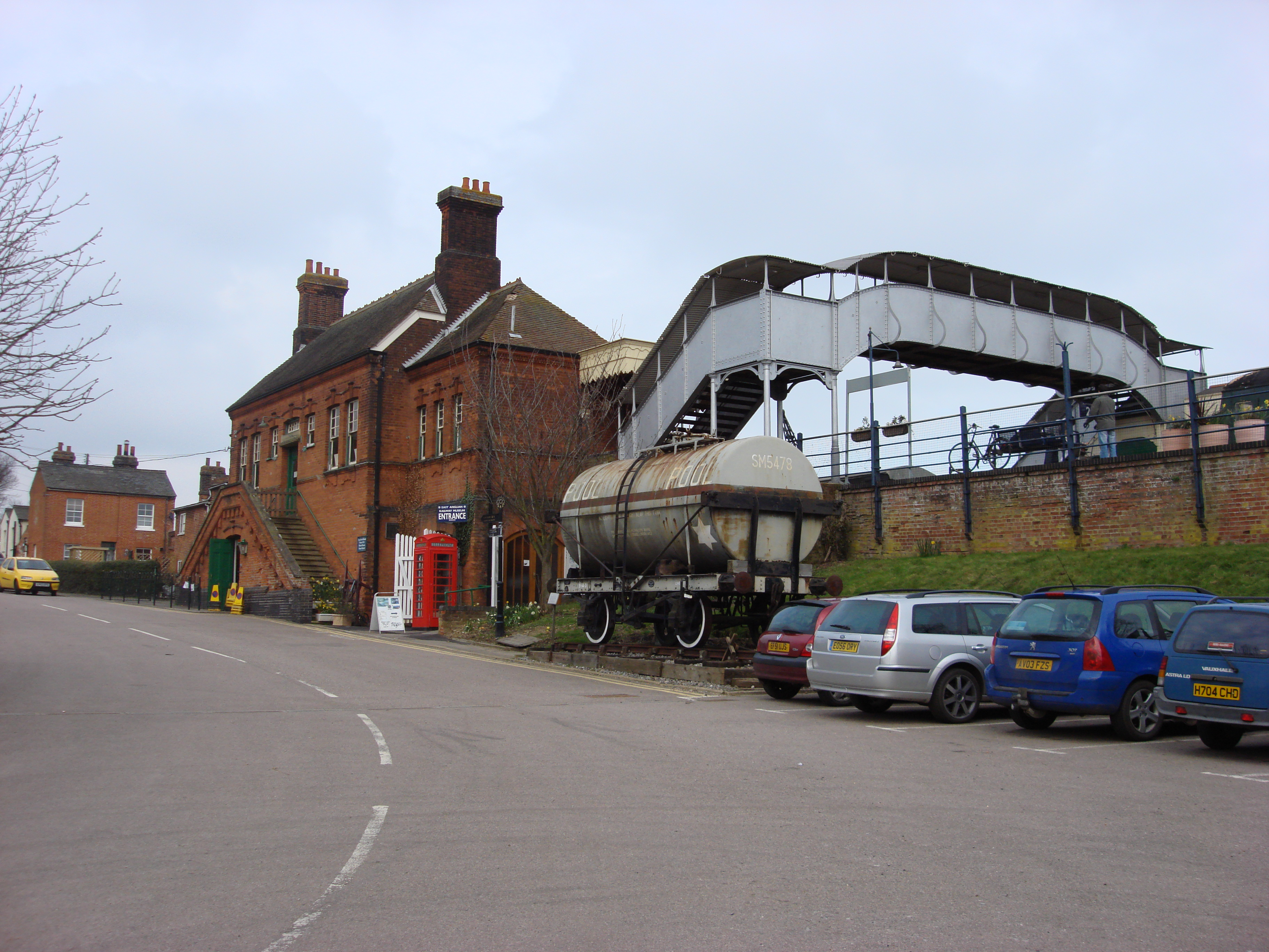 Chappel and Wakes Colne railway station is a railway station serving the villages of Wakes Colne and Chappel in Essex. The station itself is located in Wakes Colne. It is a single-platform station of the Marks Tey - Sudbury Branch Line, this line has an onboard ticket seller so does not need a station building. The building is now home to the East Anglian Railway Museum.